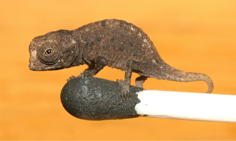 A juvenile Brookesia micra standing on the head of a match.